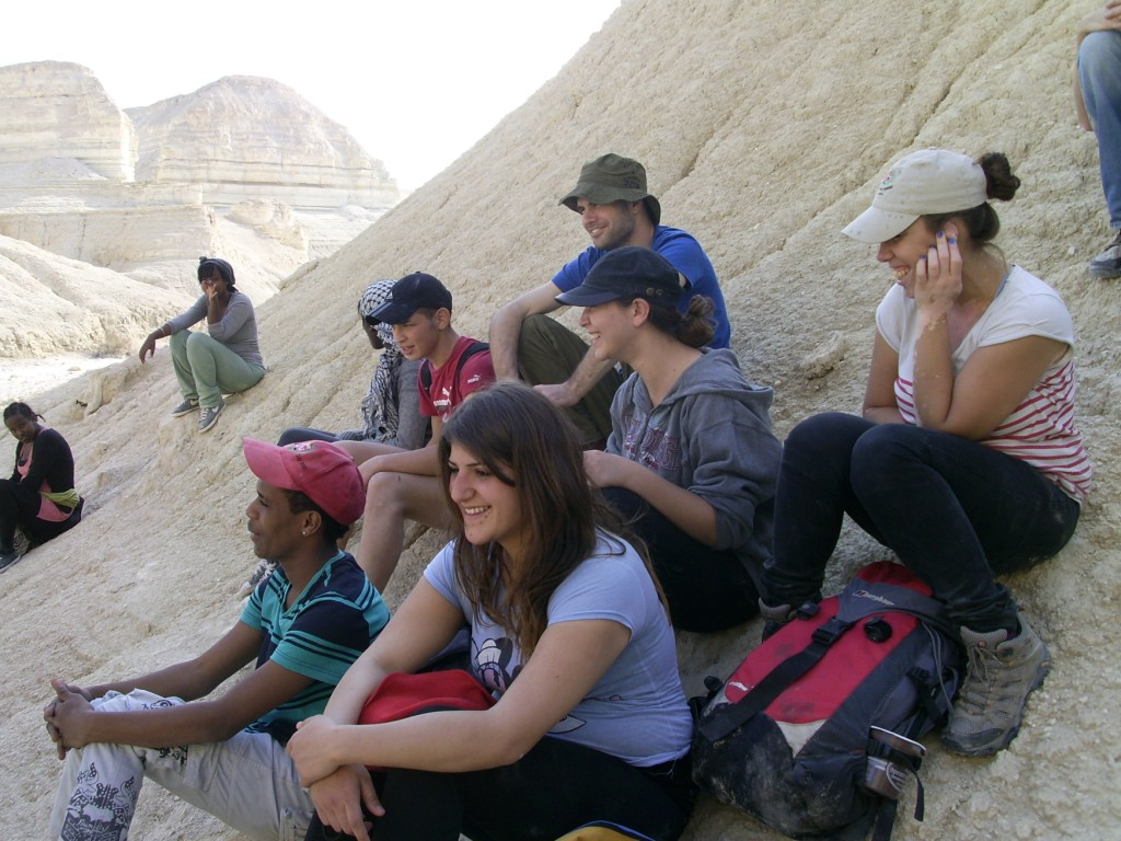 The Educationl Center in kibutz Eshbal Youth on a trip to the Negev.